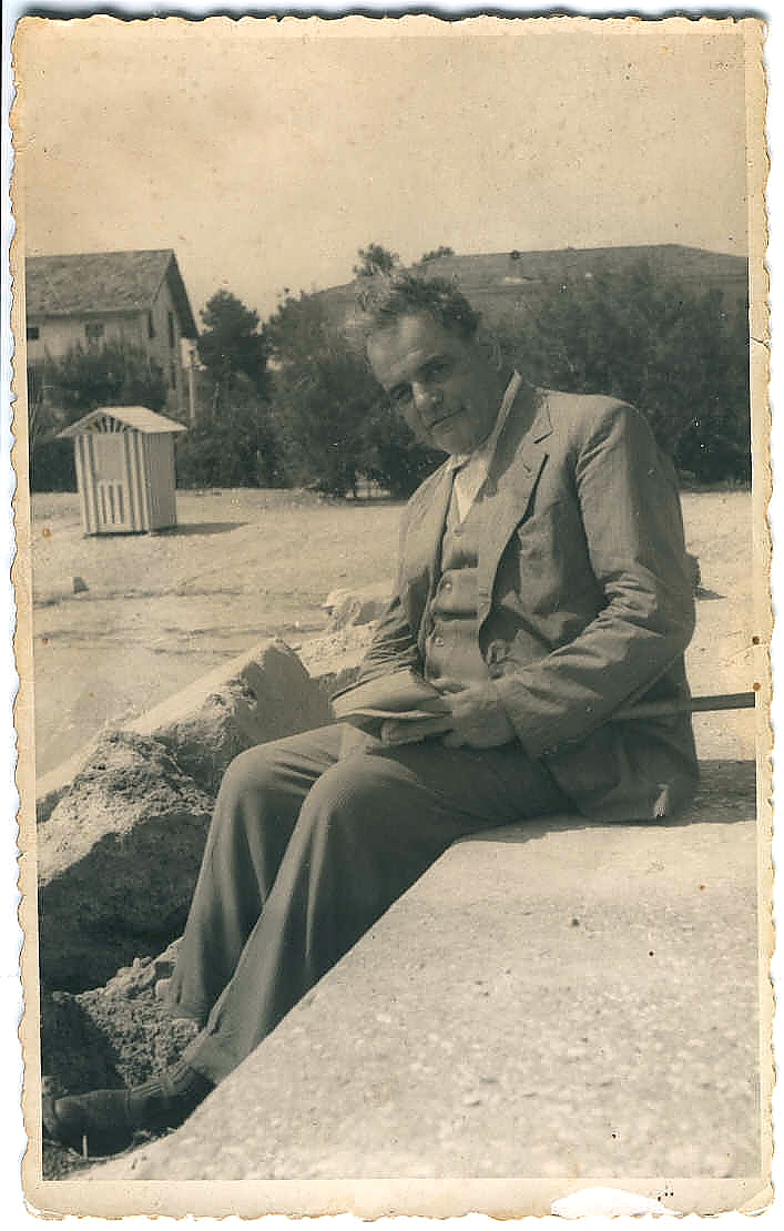 Giovanni Bucci in Cupra Marittima